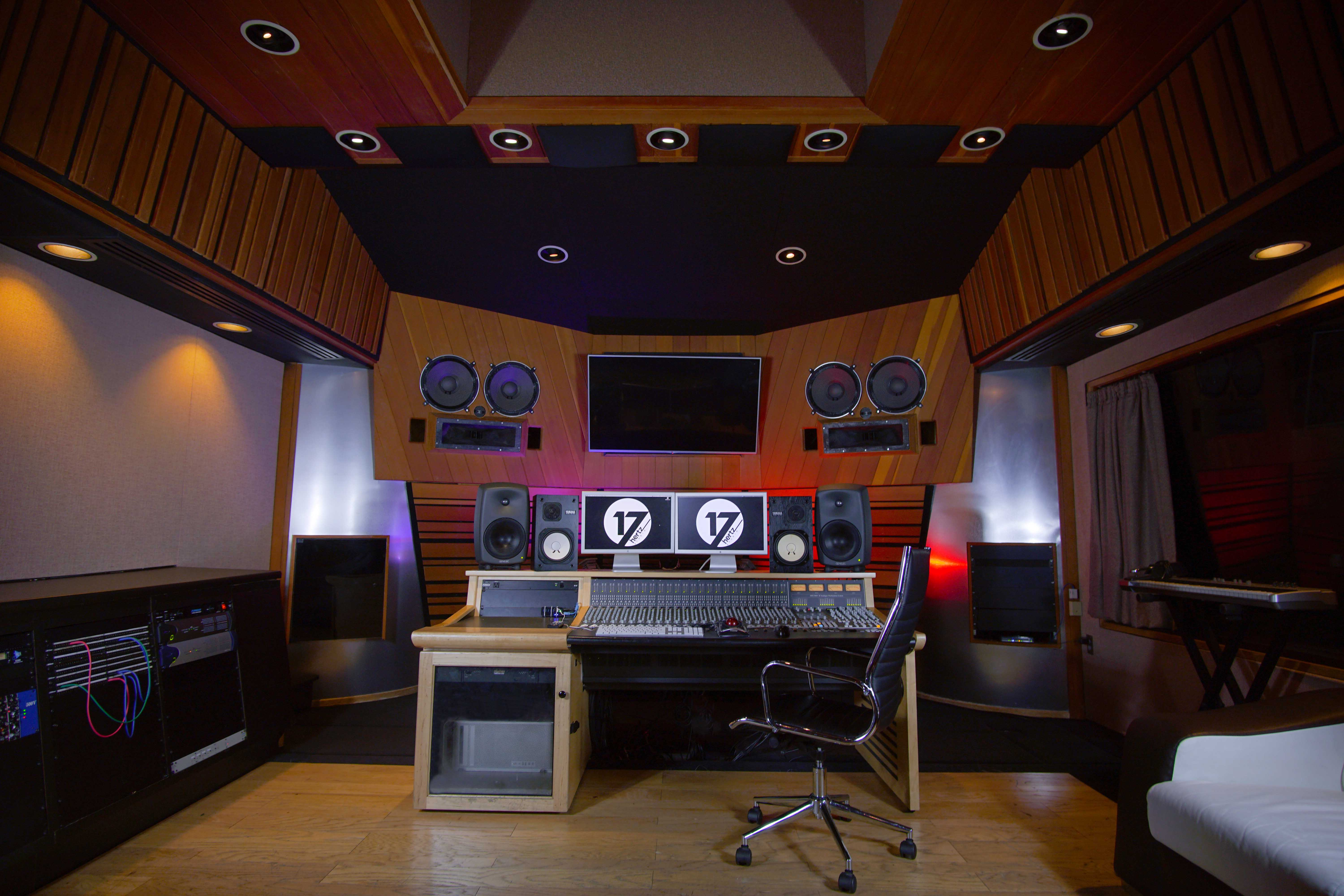 Studio B Control Room at 17 Hertz Recording Studio